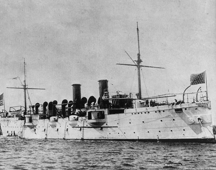 USS Philadelphia (C-4) Halftone photograph, copyright 1892 by J.S. Johnston, New York, and published in Uncle Sam's Navy, 1898. middle or later 1890s. Original caption: “Photo # NH 42603 Philadelphia, about 1892” — removed caption